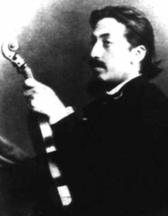 Henryk Wieniawski (10 July 1835 – 31 March 1880) was a Polish composer and violinist.